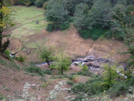 Hirkan Park Lankaran, Azerbaijan Tim O Dec 15, 2006.